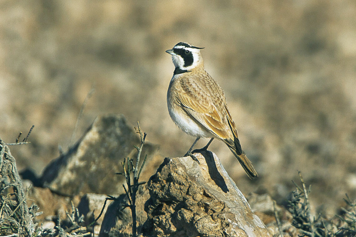 Temminck's Lark - Boumelne Marocco 07_2990